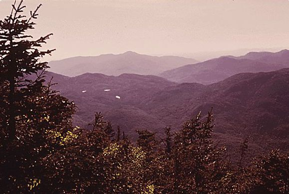 VIEW SOUTHWEST OVER THE HIGH PEAKS REGION, FROM A POINT NEAR THE SUMMIT OF ALGONQUIN PEAK , 06/1973 ARC Identifier: 554402